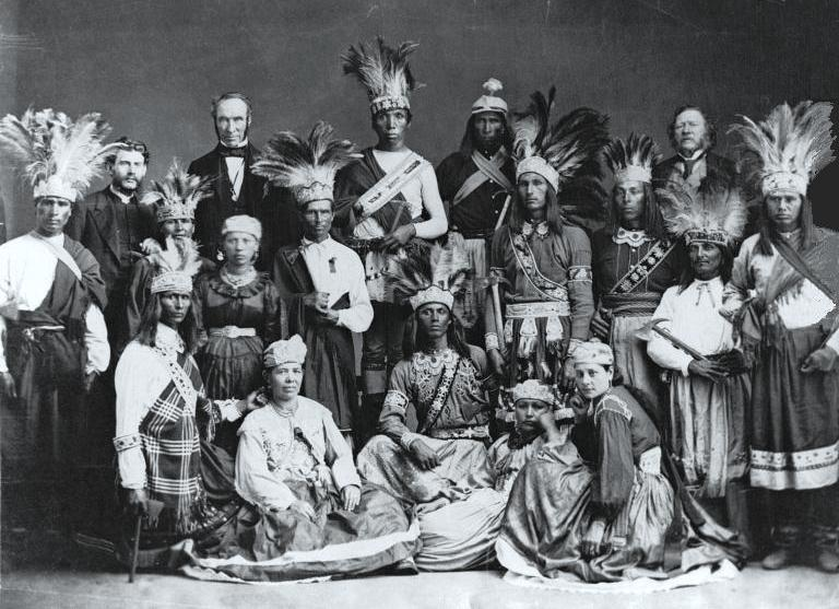 Photograph, Mohawk group with William Workman, Mayor of Montreal, Kahnawake, QC, 1869, James Inglis, Silver salts on paper - Albumen process